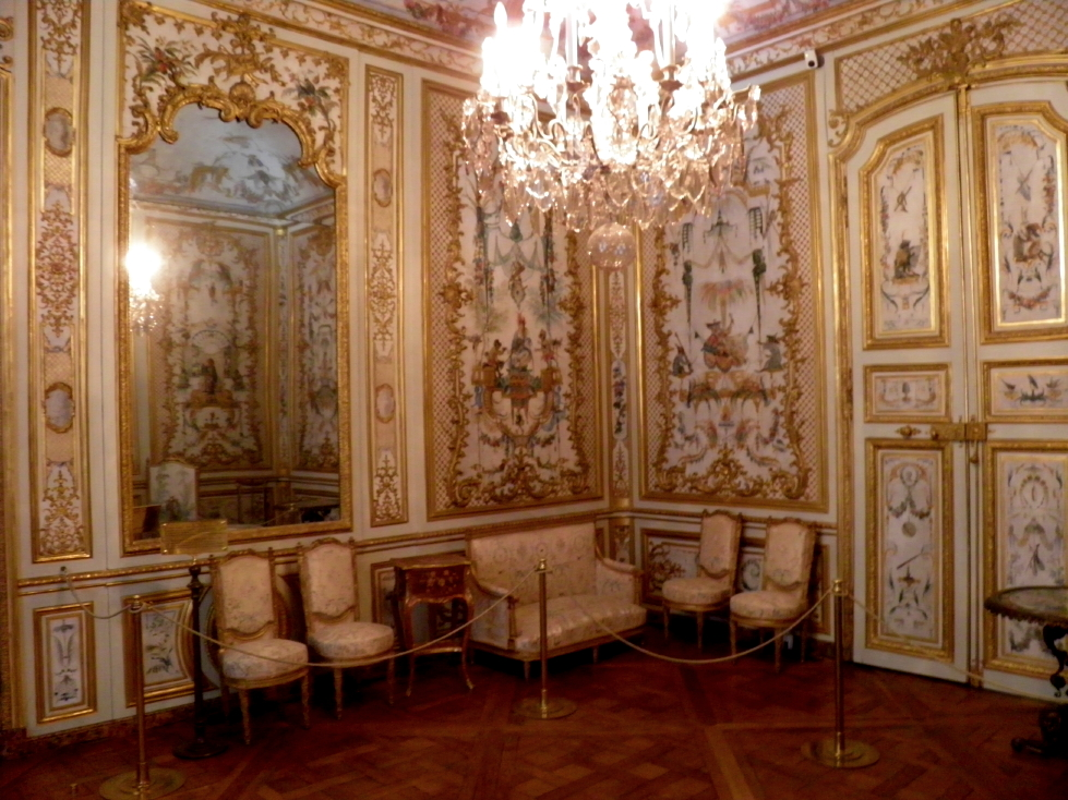 The Monkey Room, grands appartements, château de Chantilly